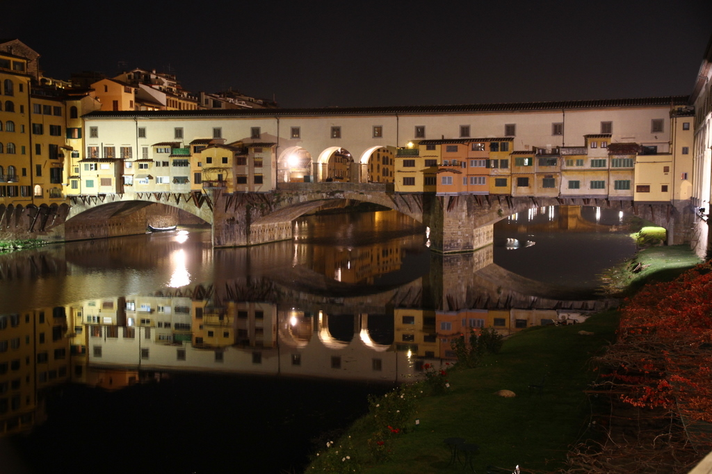 Florence Ponte Vecchio bridge at night